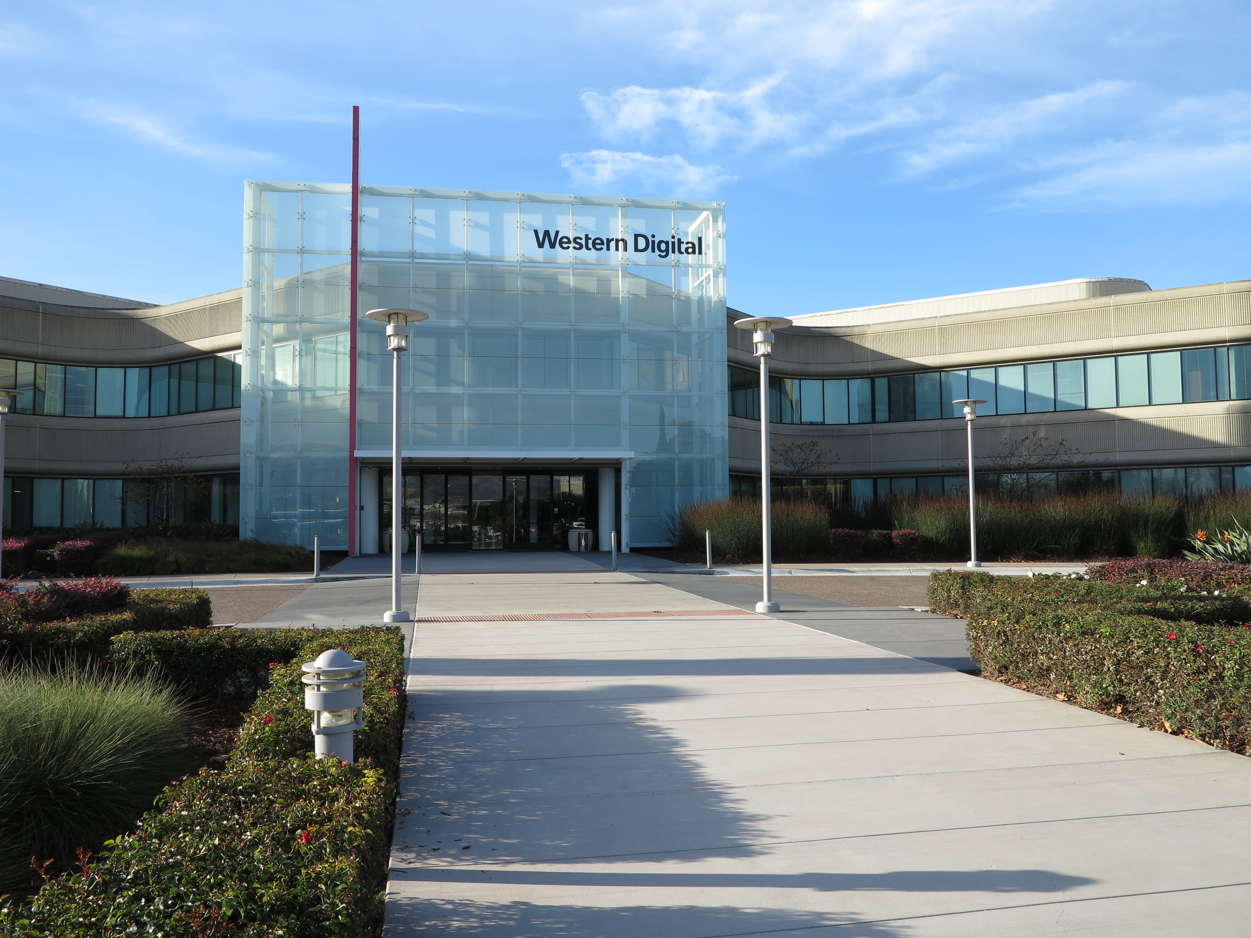 Former San Disk headquarters building shot. This is now a Western Digital office as you can see by current signage. (photo taken Oct. 31, 2018)